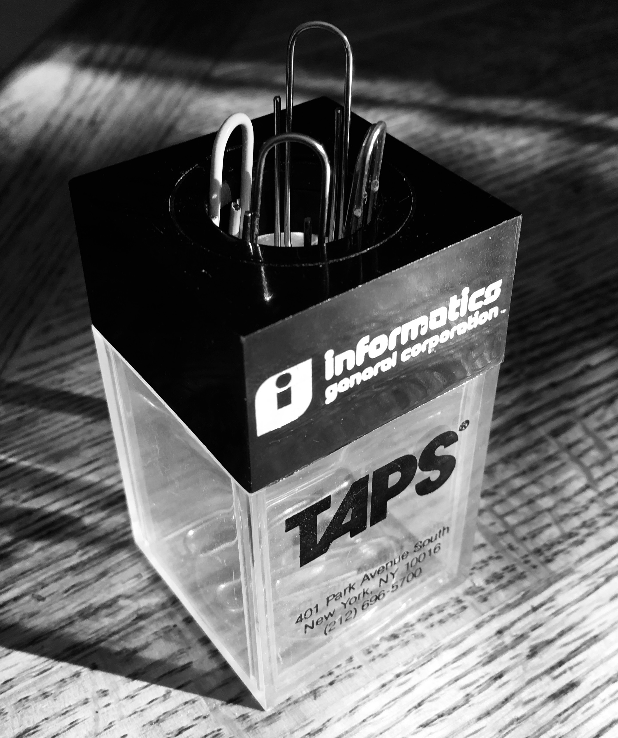 A paperclip holder with a magnetic upper portion and a transparent lower portion. A promotional item branded with the Informatics General Corporation name, and TAPS Division name and address below that. From the early 1980s.